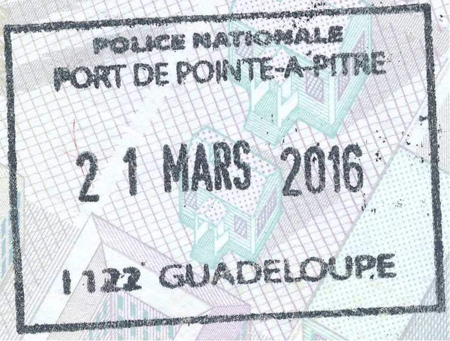 Entry stamp at the port of Pointe-à-Pitre, Guadeloupe